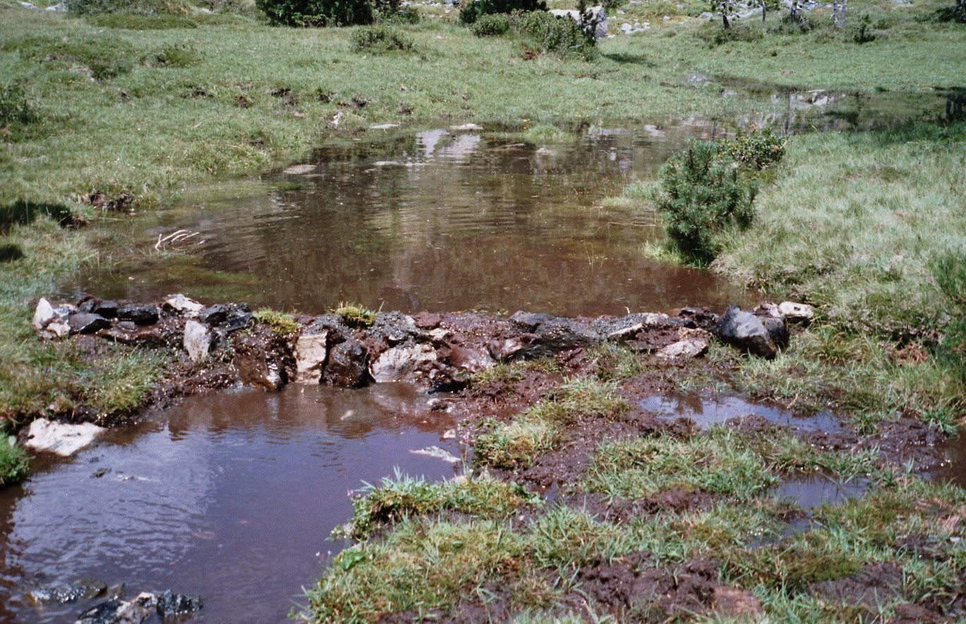 A handmade dam on a little stream in the Pyrénées, France.